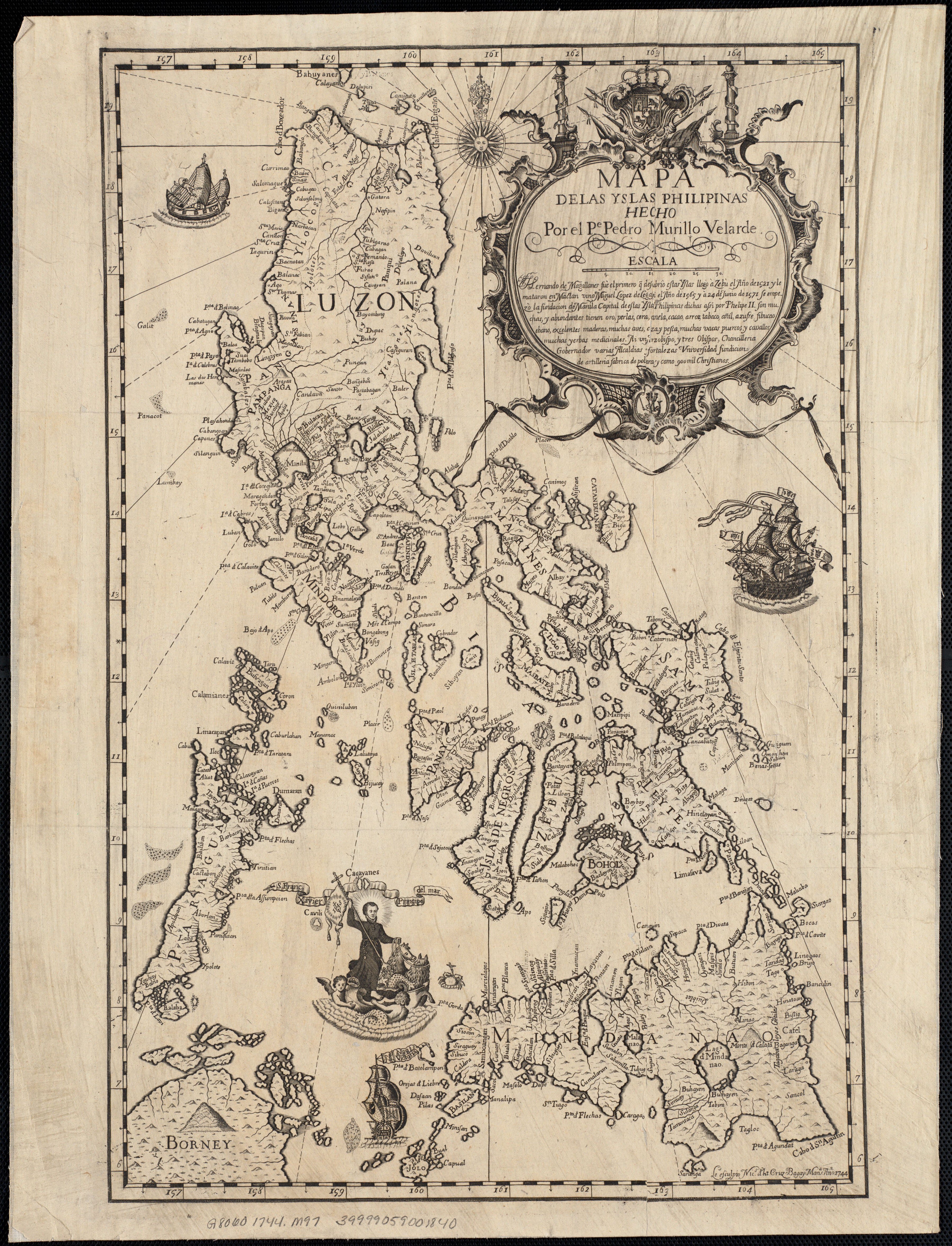 Zoom into this map at . Author: Murillo Velarde, Pedro Publisher: s.n. Date: [1744] Location: Philippines Scale: Scale [ca. 1:3,100,000]. Call Number: G8060 1744.M97